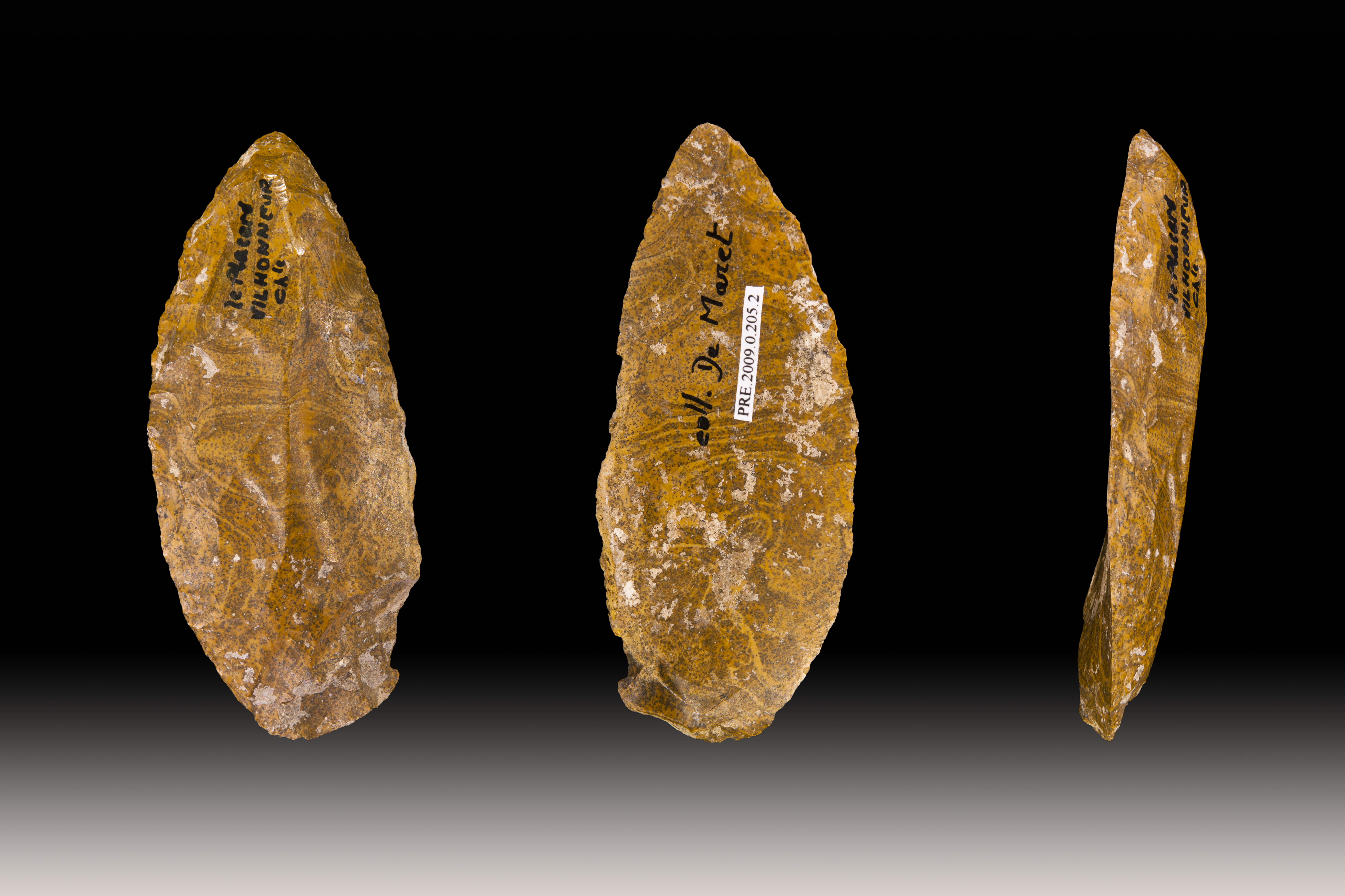 Blade - Different views of the same specimen.